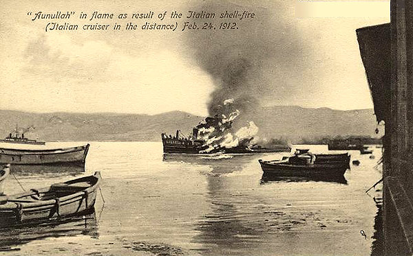 Ottoman ironclad Avnillah in flame as result of the Italian shell-fire (Italian cruiser in the distance) Feb. 24, 1912.